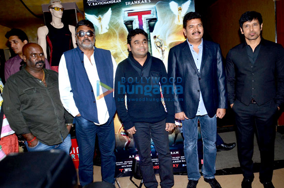 P. C. Sreeram, A R Rahman, S. Shankar and Vikram unveil the first look of ‘I’ to media